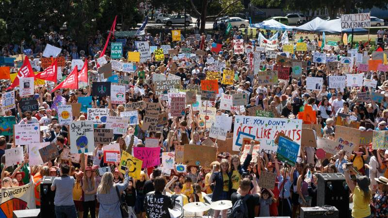 Newcastle